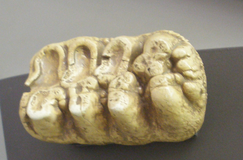 Fossil of Stegotetrabelodon, an extinct proboscidean- Took the photo at Senckenberg Museum of Frankfurt